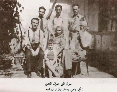 The late Syrian Poet Nizar Kabbani with his family.